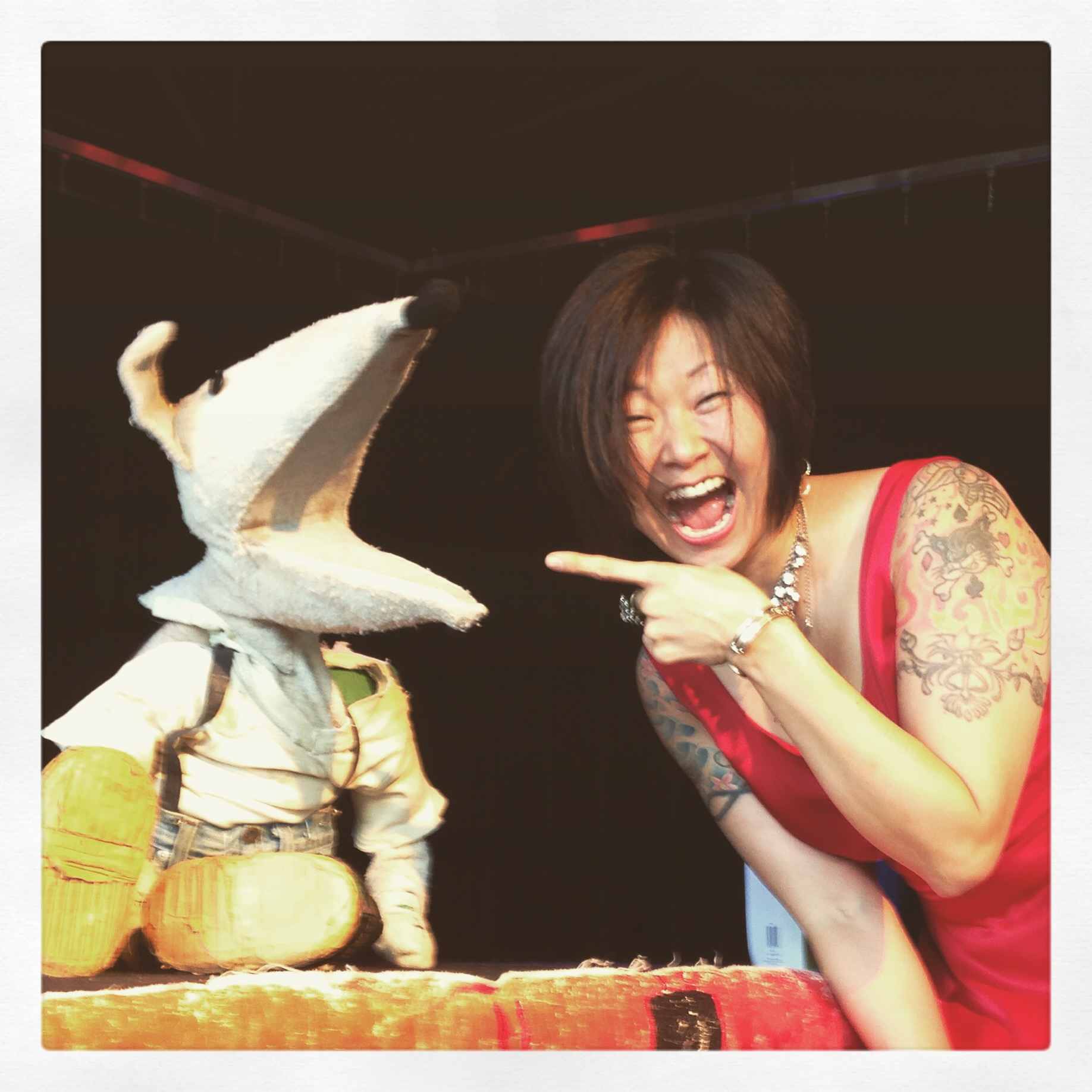 Chicago cable access TV dance show Chic-A-Go-Go hosts Miss Mia and Ratso.